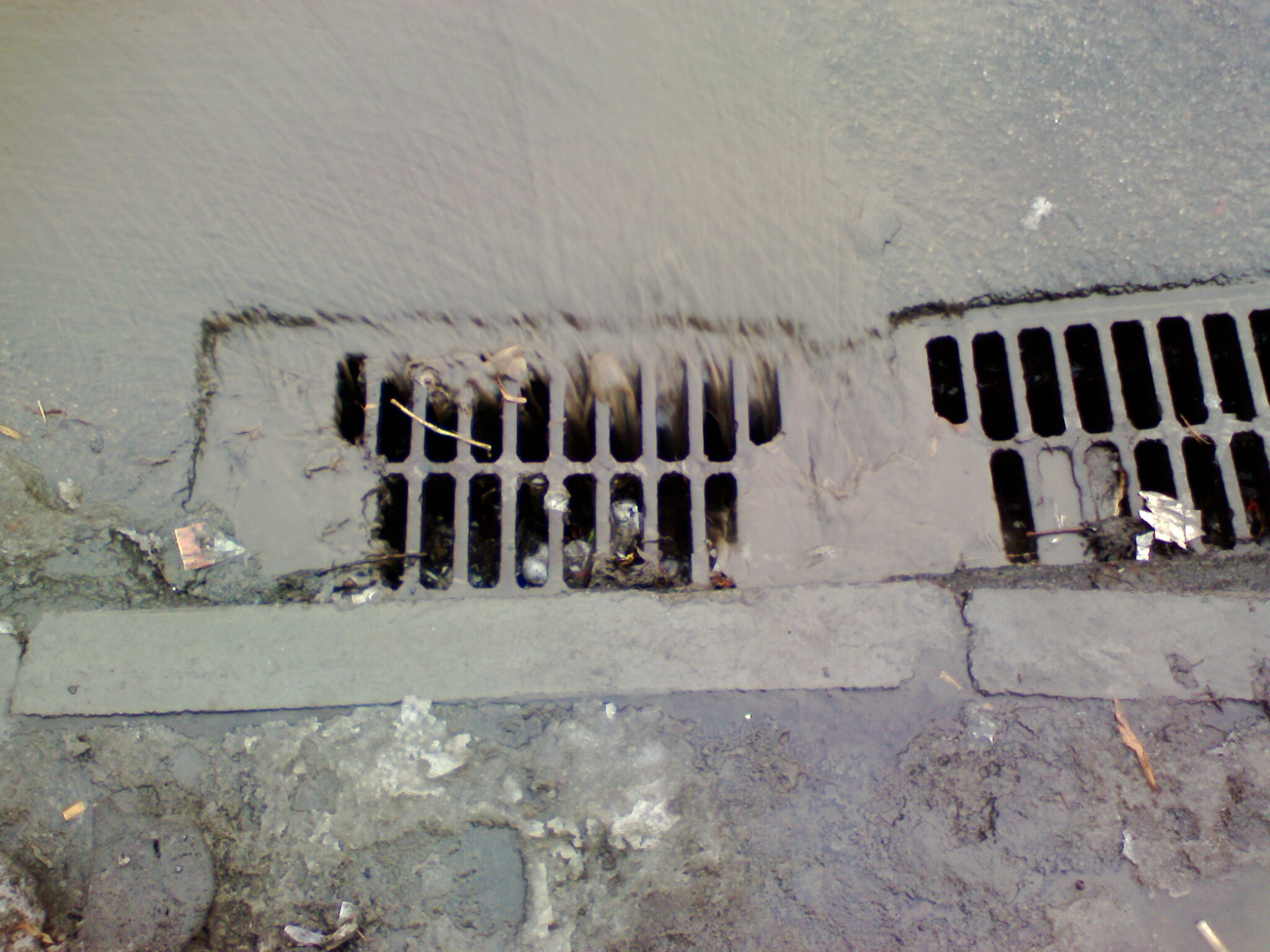 Drain runoff in Kharkiv. Early spring